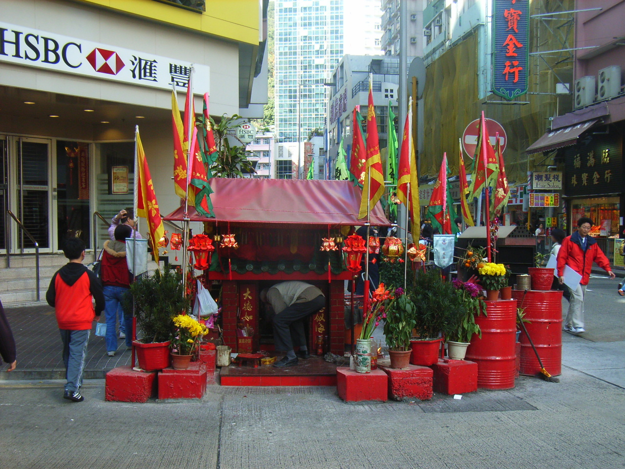 香港島南區 香港仔 成都道與 南寧街交界, 近湖北街 東華三院讚許